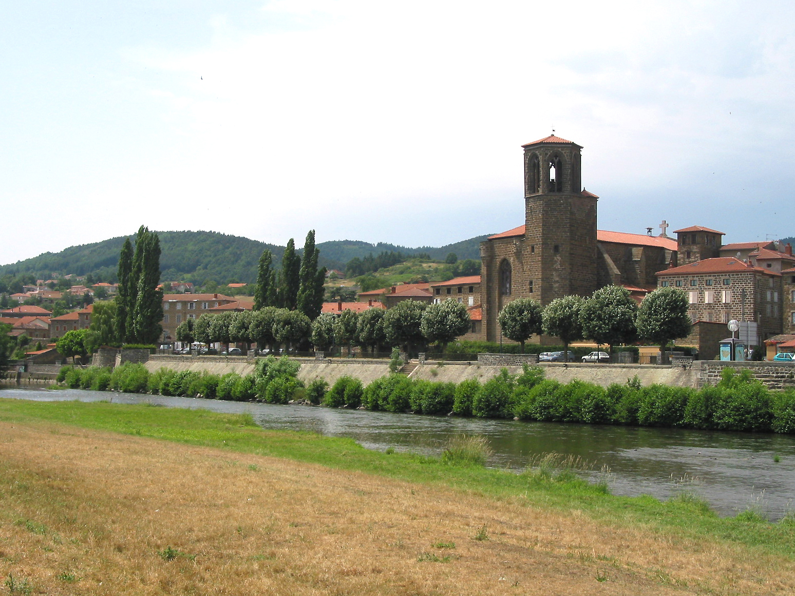 Langeac (Haute-Loire - France), the Allier River and the Saint Gal Collegiate church.